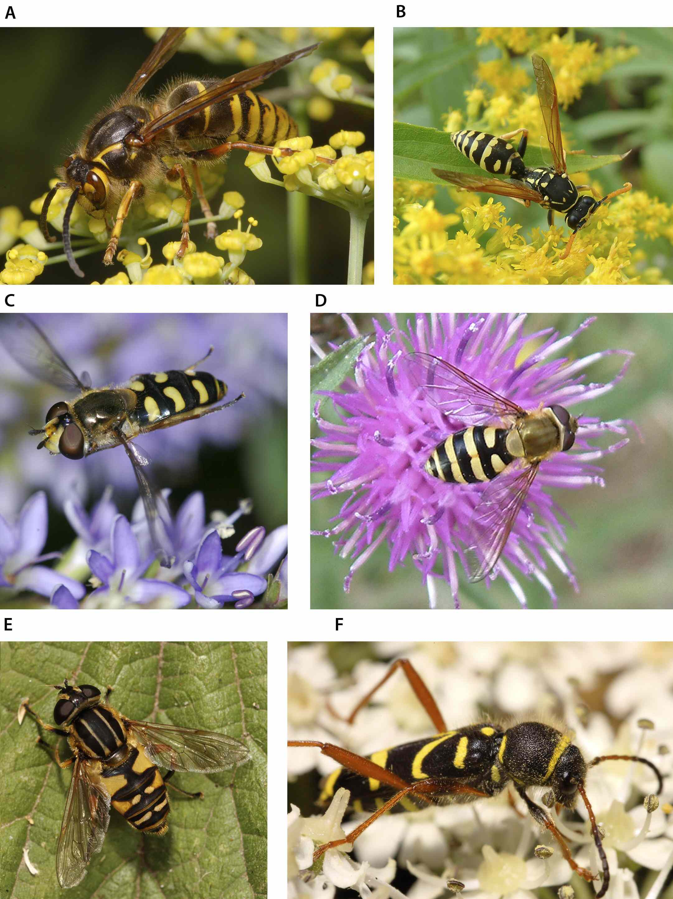 Two wasp species and four imperfect and palatable mimics. (A) Dolichovespula media; (B) Polistes spec.; (C) Eupeodes spec.; (D) Syrphus spec; (E) Helophilus pendulus; (F) Clytus arietes (all species European). Of note, species C–F have no clear resemblance to any wasp species. The three hoverfly species differ in the shape of their wings and body, length of antennae, flight behaviour, and striping pattern from European wasps. One fly species (E) even has longitudinal stripes, which wasps typically don't. The harmless wasp beetle does not normally display wings, and its legs do not resemble those of any wasps.